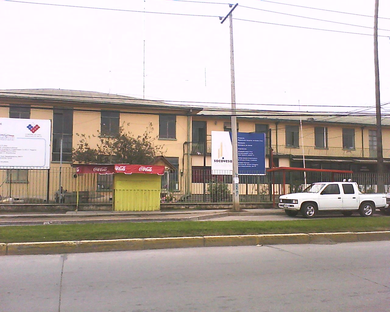 Hospital of Santa Cruz, Chile